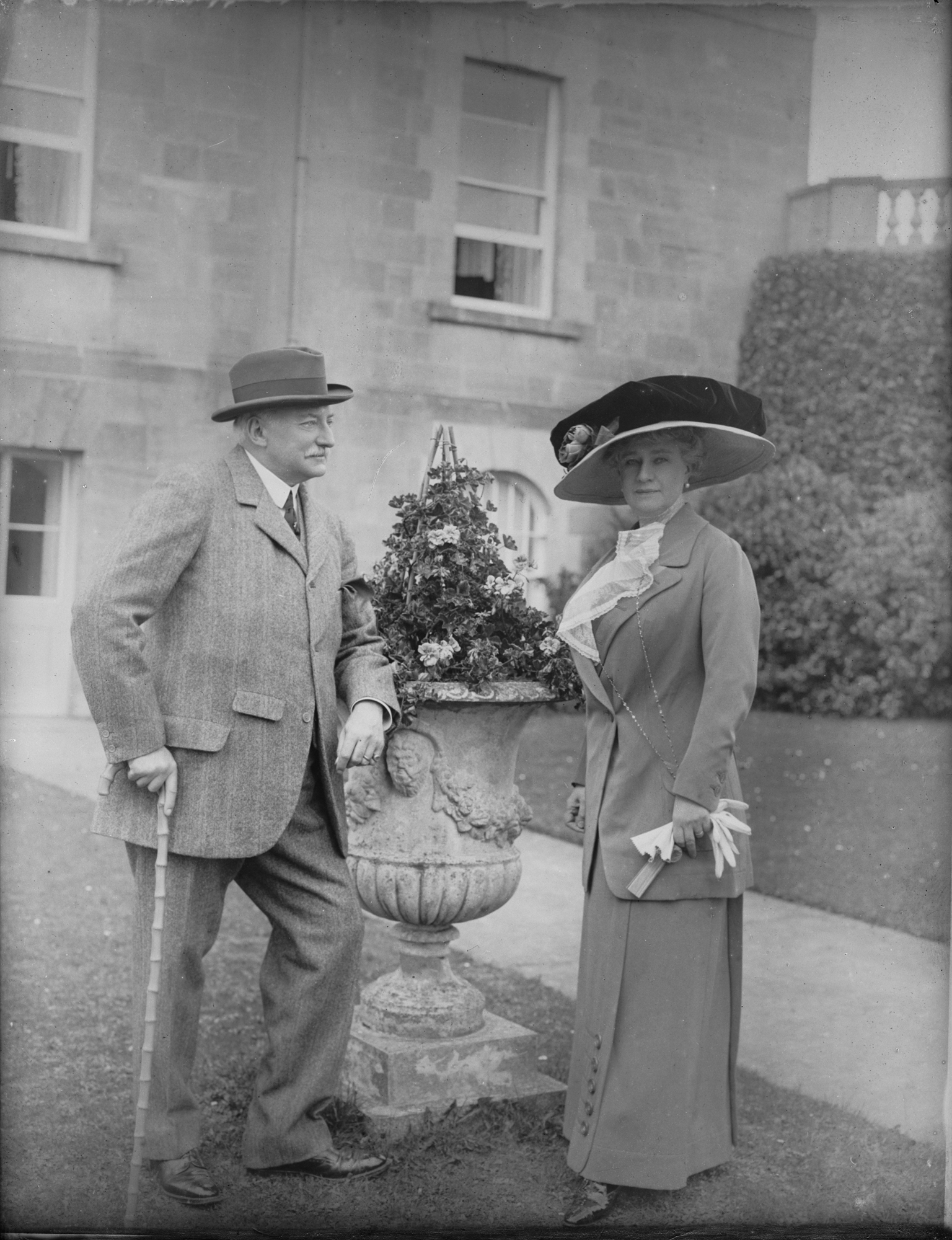 An unusual one this morning, a couple with a title in a very posed shot. But who are they and where was it taken?